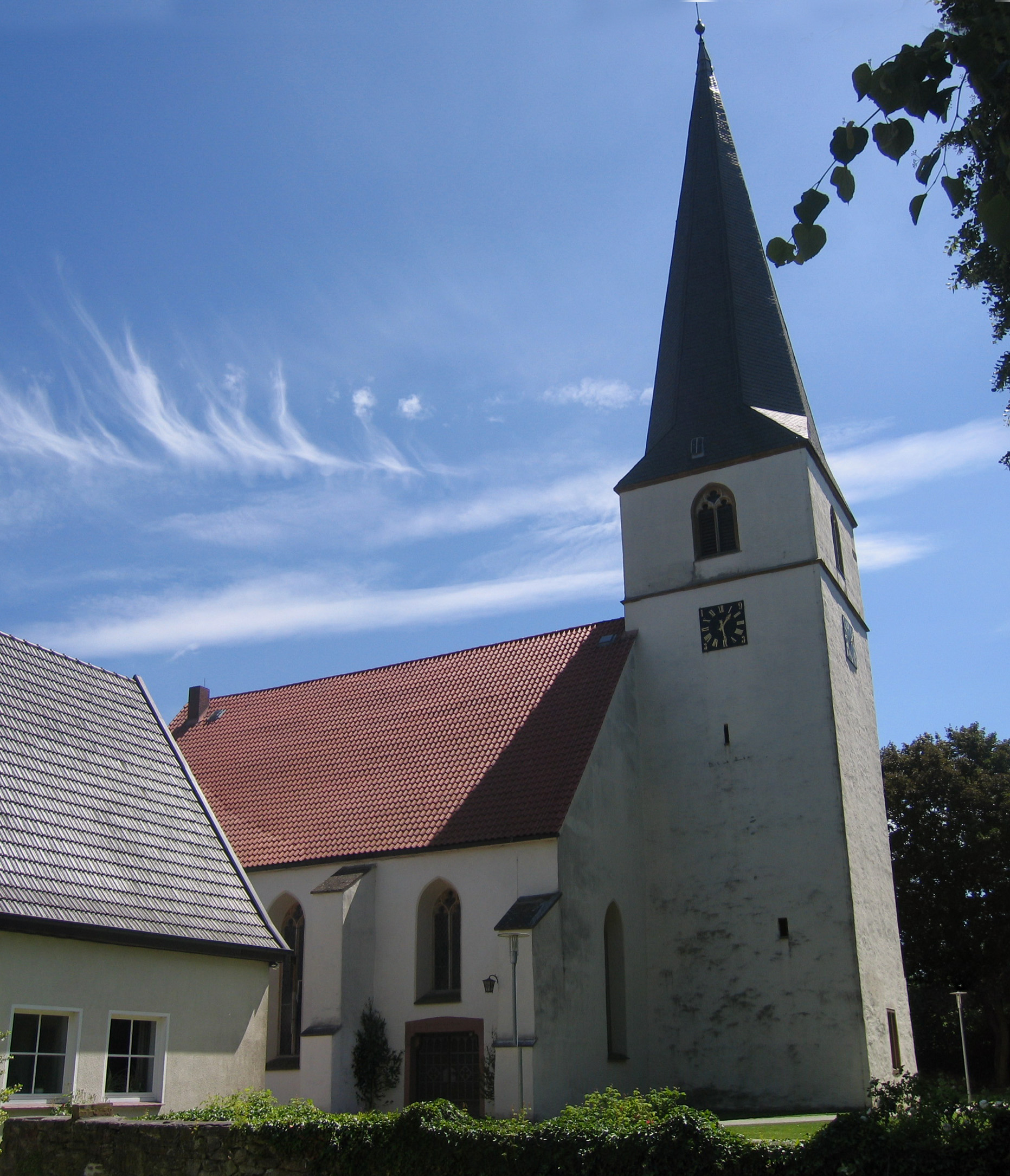 Blasheim church in Lübbecke, District of Minden-Lübbecke, North Rhine-Westphalia, Germany.